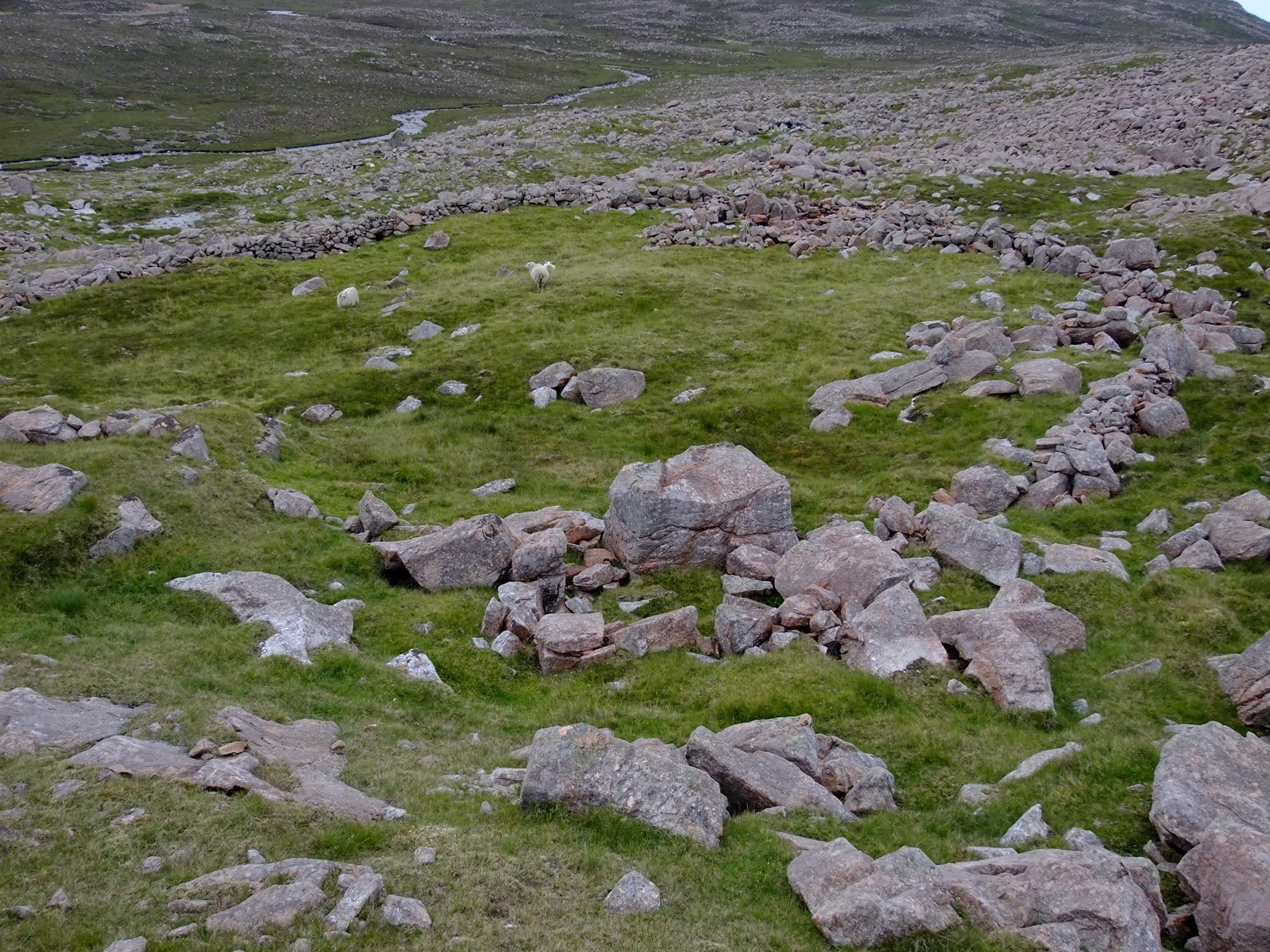 Sheep fold, Giants Garden